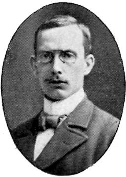 Image scanned from the book "Svenskt Porträttgalleri XX - Arkitekter, Bildhuggare, Målare m.fl. " ("Swedish Portrait Gallery XX - Architects, Sculptors, Painters, ") published 1901